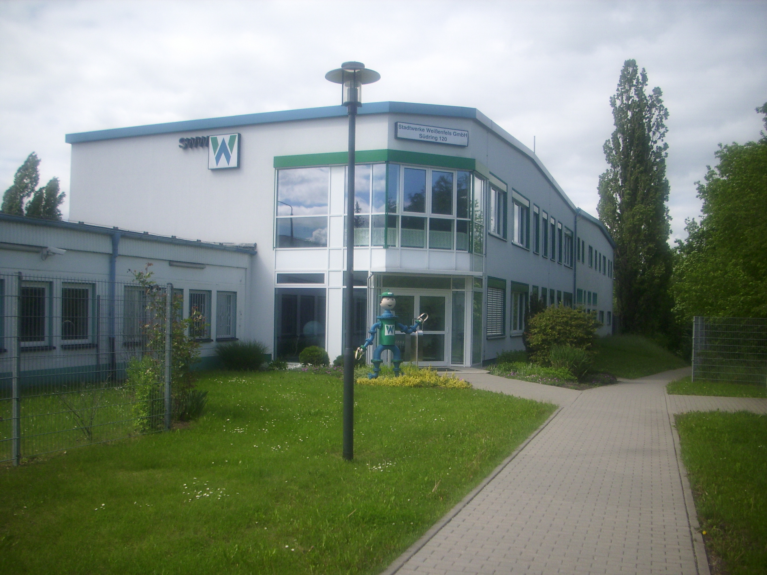 Headquarters of Stadtwerke (public utility company) Weißenfels, Germany.